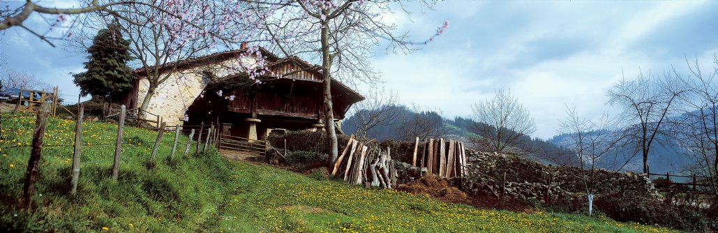 Agarre farm's granary. Bergara, Gipuzkoa, Basque Country.